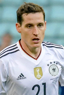 Germany VS. Cameroon 3 - 1, 25 June 2017